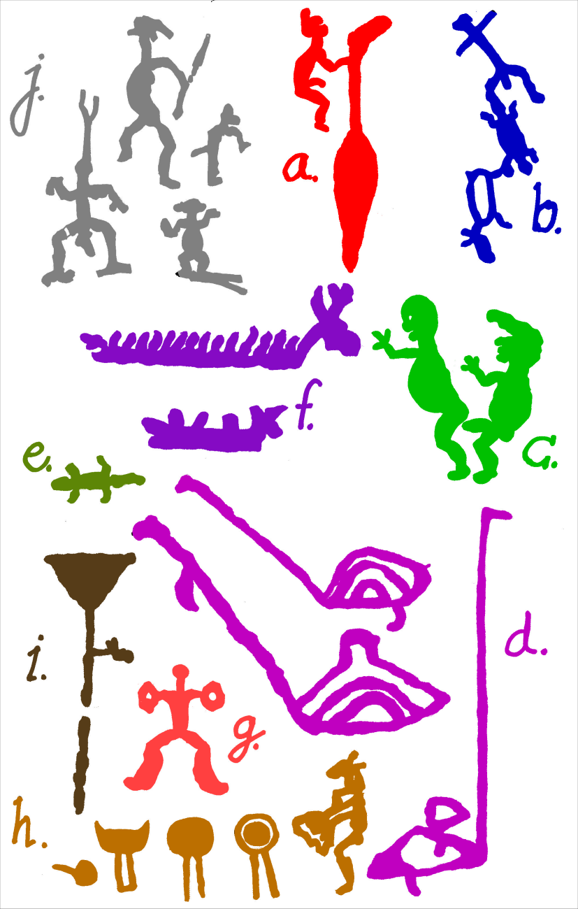 Petroglyphs from site Peri Nos from Lake Onega in Carelia Russia